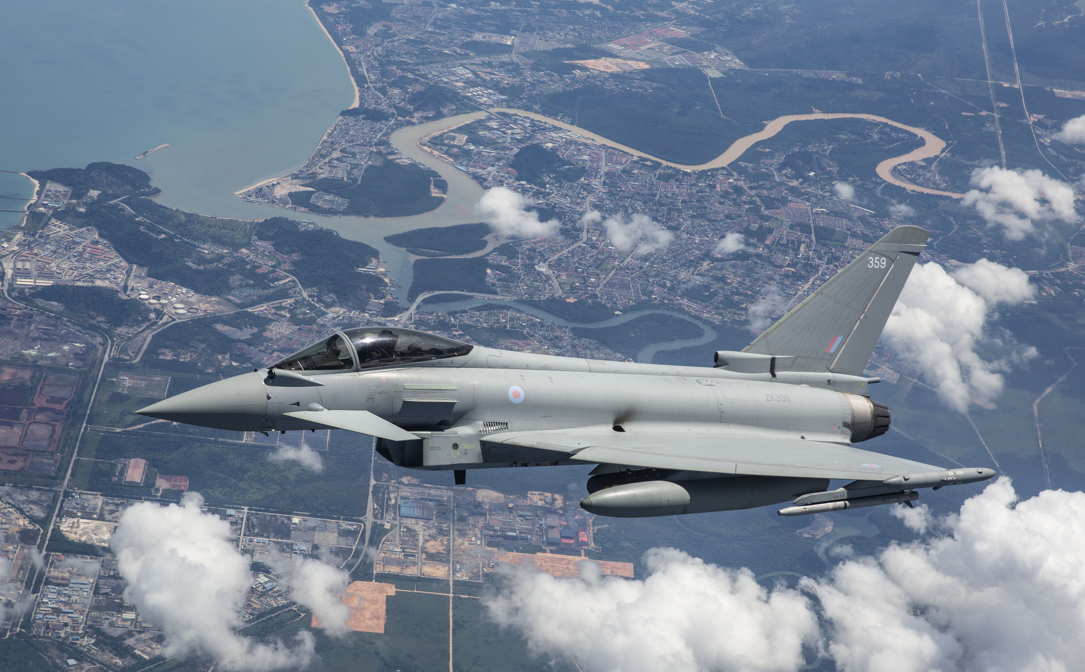 RAF Typhoon aircraft on Ex BURSAMA LIMA 2019